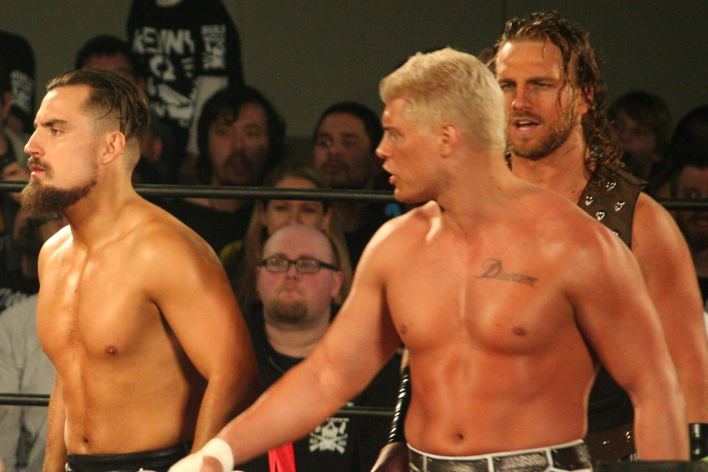 Left to right: Marty Scurll, Cody Rhodes, and Adam Page at Ring of Honor's Honor Reigns Supreme event in Concord, North Carolina on February 9, 2018.